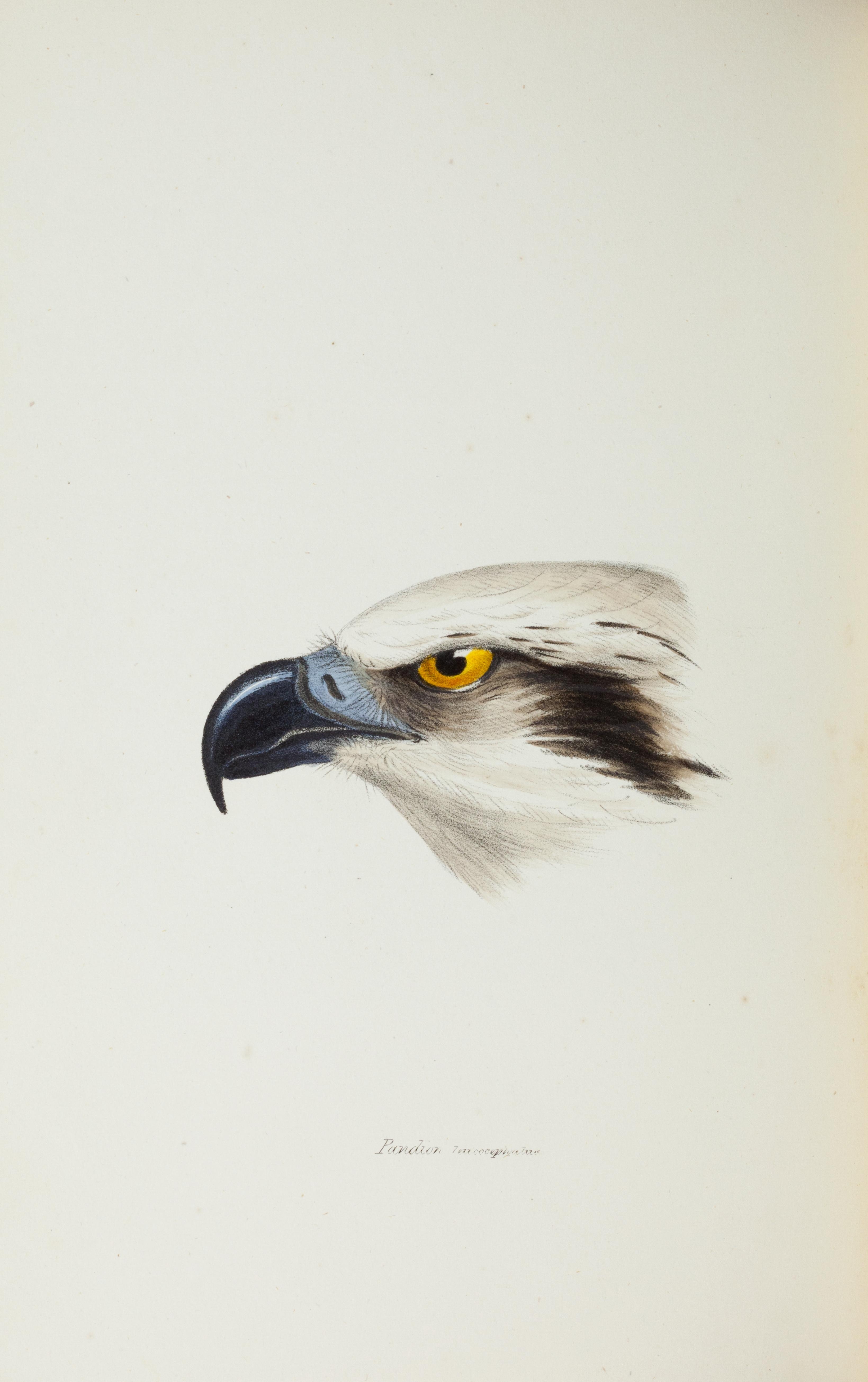 A synopsis of the birds of Australia, and the adjacent Islands /